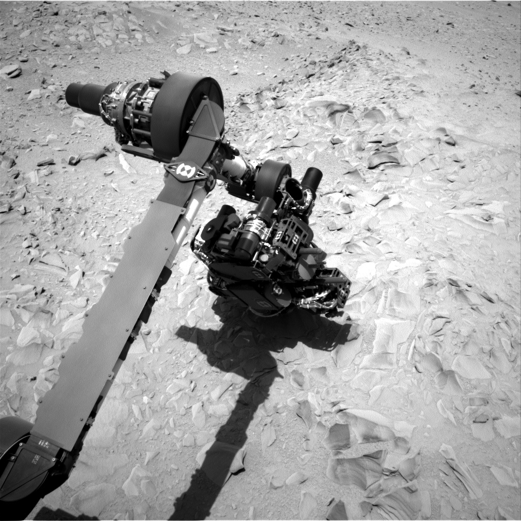 10.01.2012 Inspection of Rock Target 'Bathurst Inlet' This image was taken by Navcam: Left A (NAV_LEFT_A) onboard NASA's Mars rover Curiosity on Sol 54. On Sol 54 (Sept. 30, 2012), Curiosity used two tools at the end of its arm to inspect two targets on an angular rock called "Bathurst Inlet." The rover had driven 7 feet (2.1 meters) the preceding sol to place itself within arm's reach of the targets. Curiosity took close-up images of Bathurst Inlet with its Mars Hand Lens Imager (MAHLI), and took readings with the Alpha Particle X-Ray Spectrometer (APXS) to identify chemical elements in the target. MAHLI also inspected another location within reach, "Cowles." A Sol 54 raw image from Curiosity's left Navigation Camera showing the arm at work at Bathurst Inlet is at . Sol 54, in Mars local mean solar time at Gale Crater, ended at 7:07 p.m. Sept. 30, PDT (10:07 p.m. EDT).